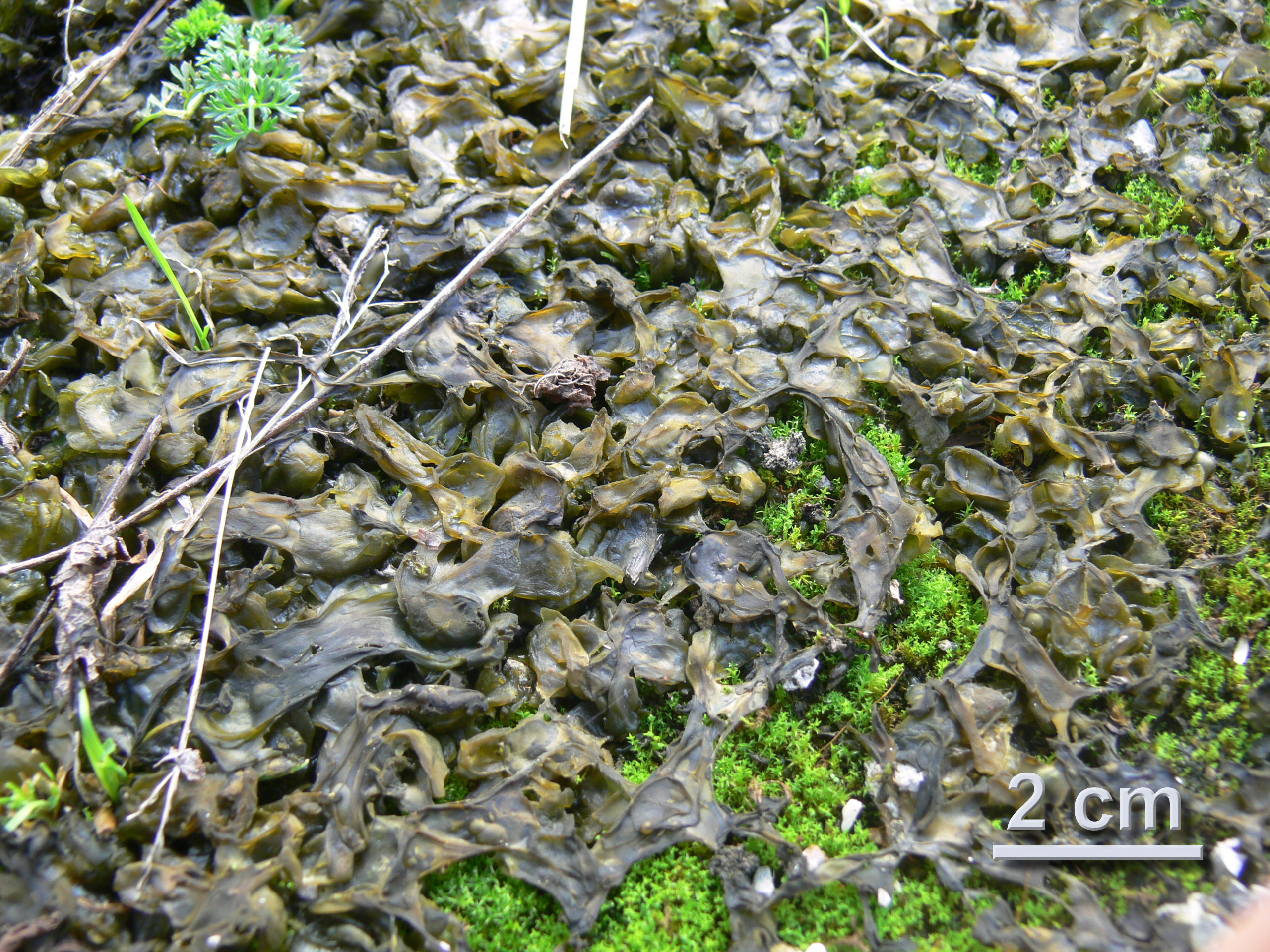 Nostoc (primitive bacteria) collected on a path of limestone materials (metal-rich; industrial waste from the metallurgical factory Sollac of Dunkirk (now Arcelor-Mital), on the edge of the channel of Noeufossé, on the territory of Renescure (North County ) The place is locally named pont Asquin ("Asquin Bridge.")